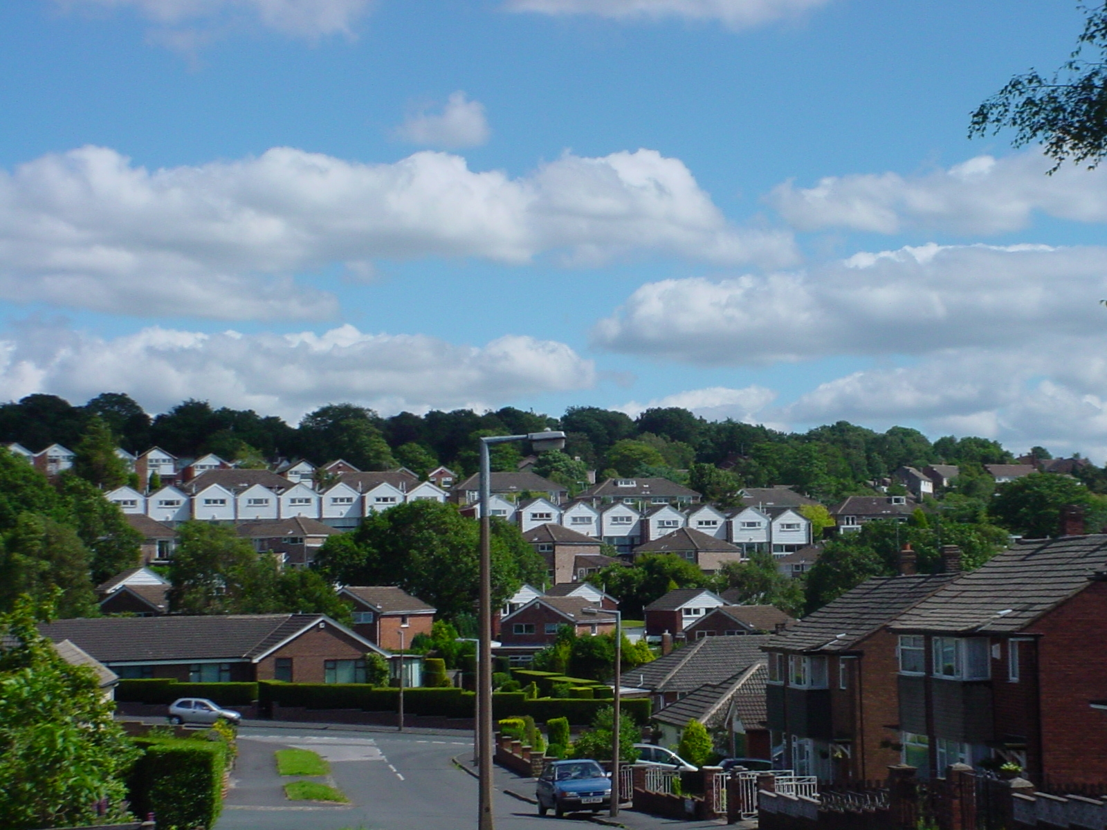 The Dale Parks area of Cookridge, Leeds seen from the Moseley Woods area, Summer 2002.